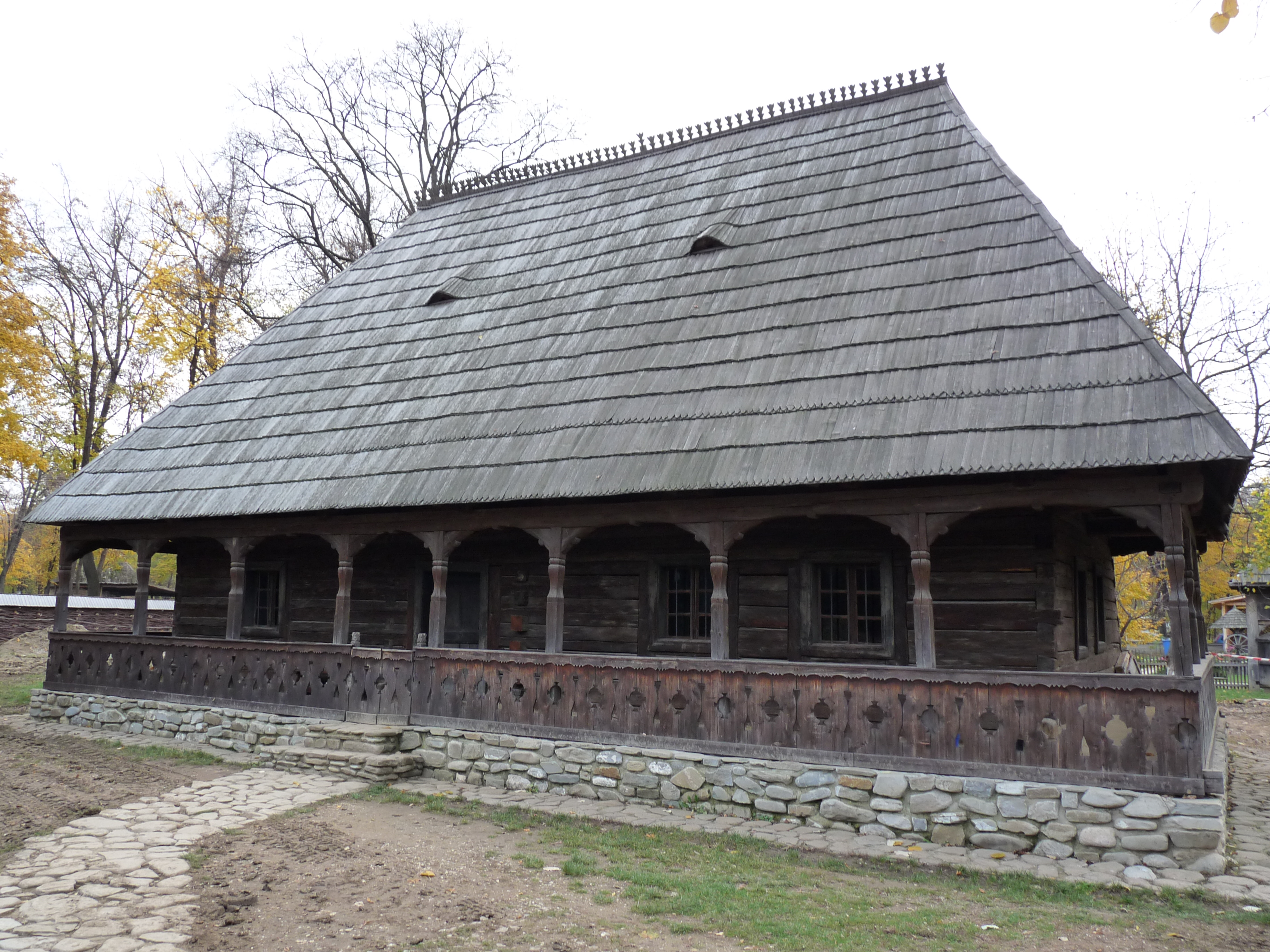 19th century household from Ieud, Maramureş County, Romania, exhibited in the Village Museum in Bucharest. House.